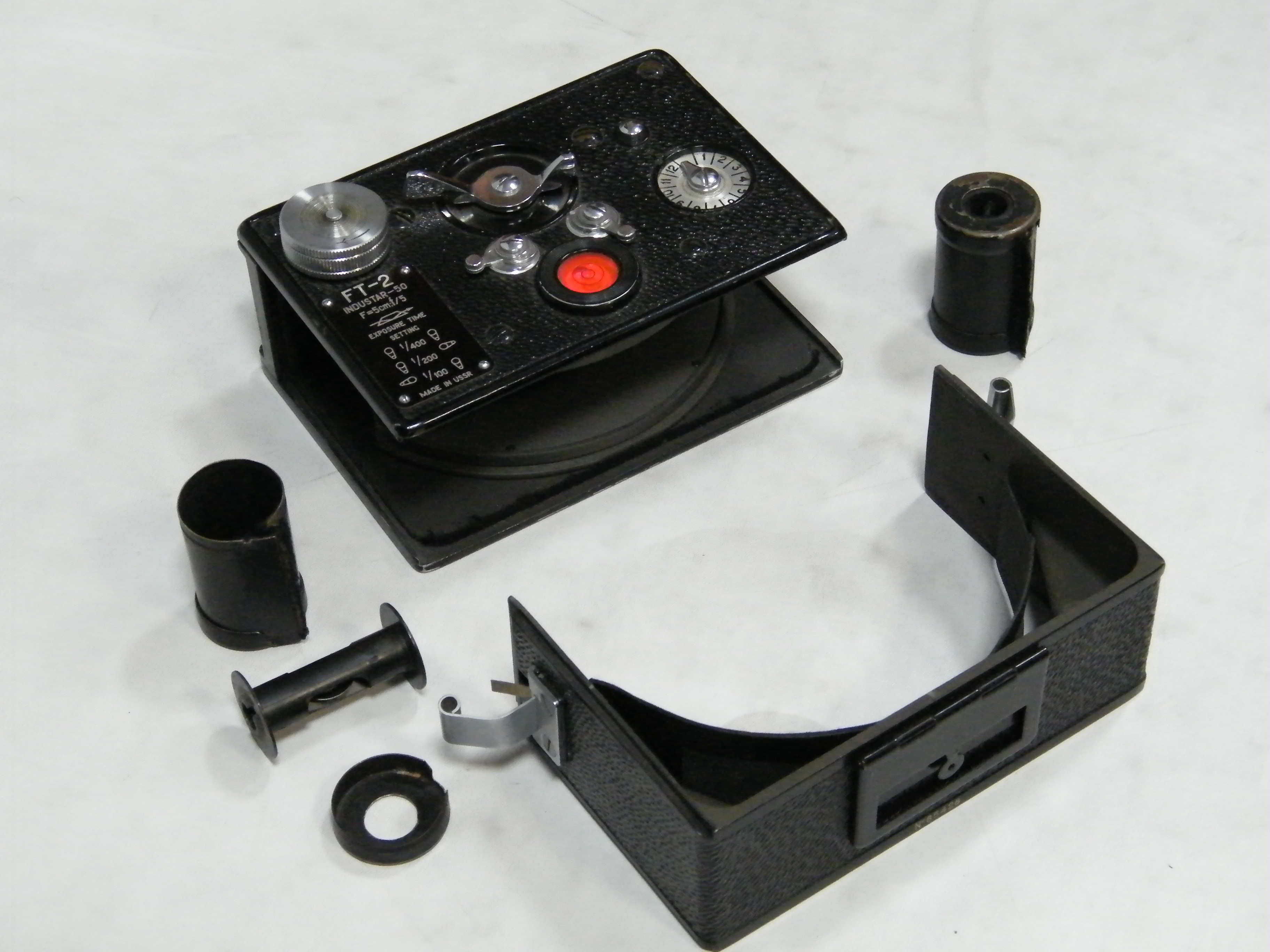 FT-2 Soviet panoramic camera from collection Evgeniy Okolov